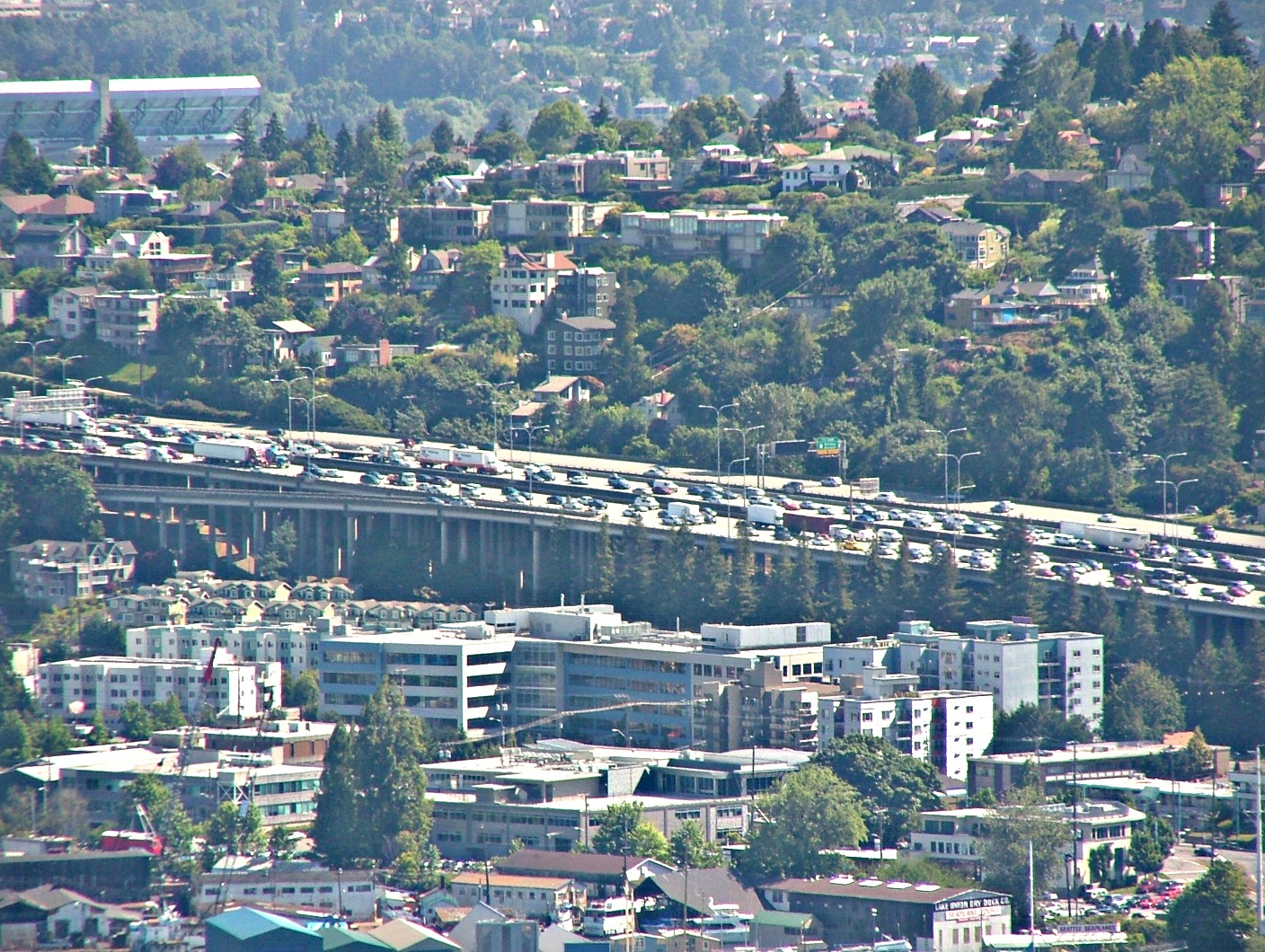 Morning traffic on I-5 in Seattle, seen from Space Needle. Eastlake in foreground, Capitol Hill in background, and at left Husky Stadium on the University of Washington campus.